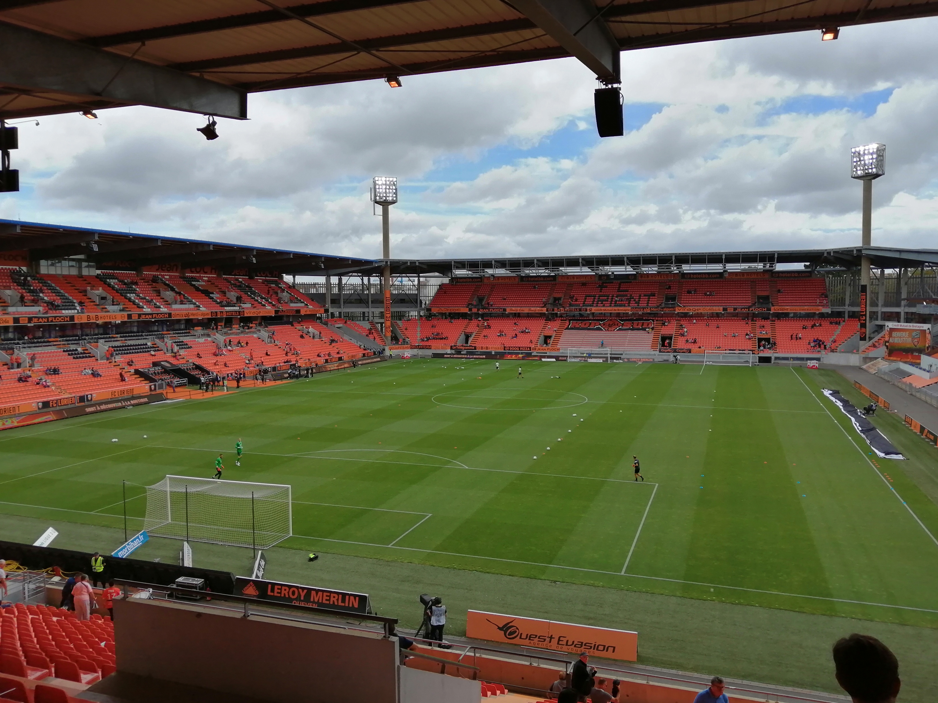 Photo of the Stade du Moustoir